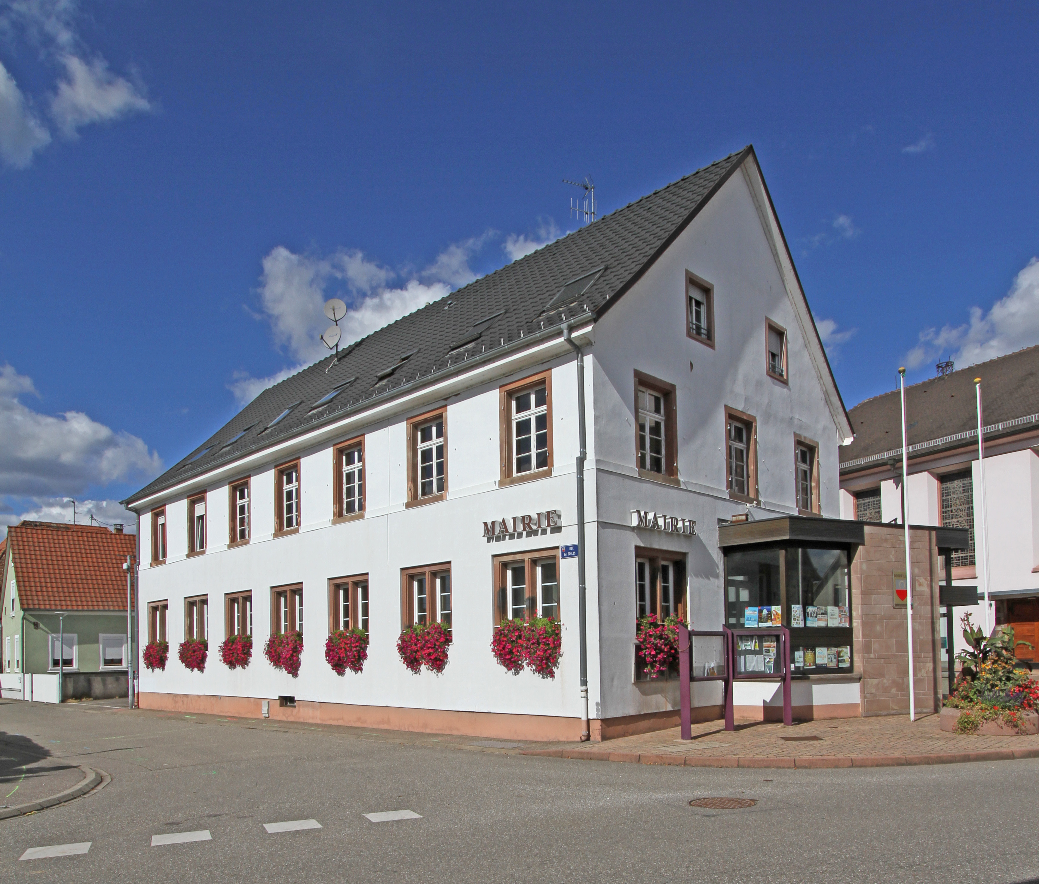 City hall in Rohrwiller.